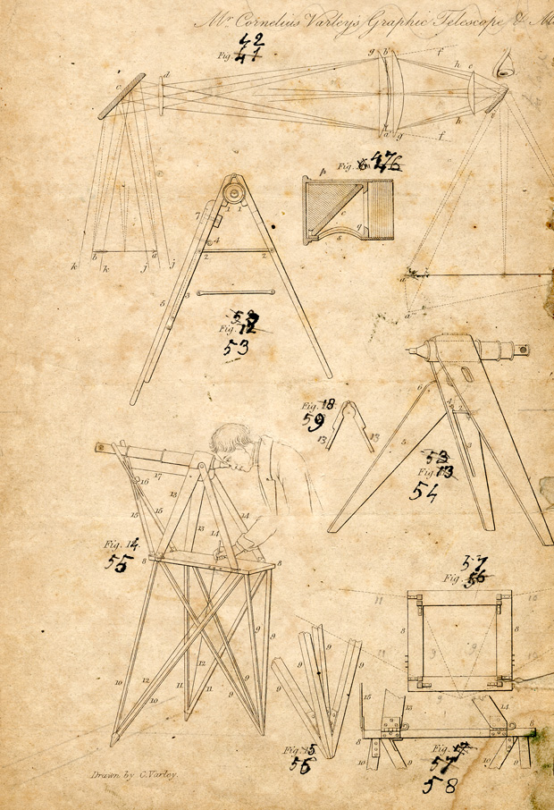 Drawings for graphic telescopes, by the inventor